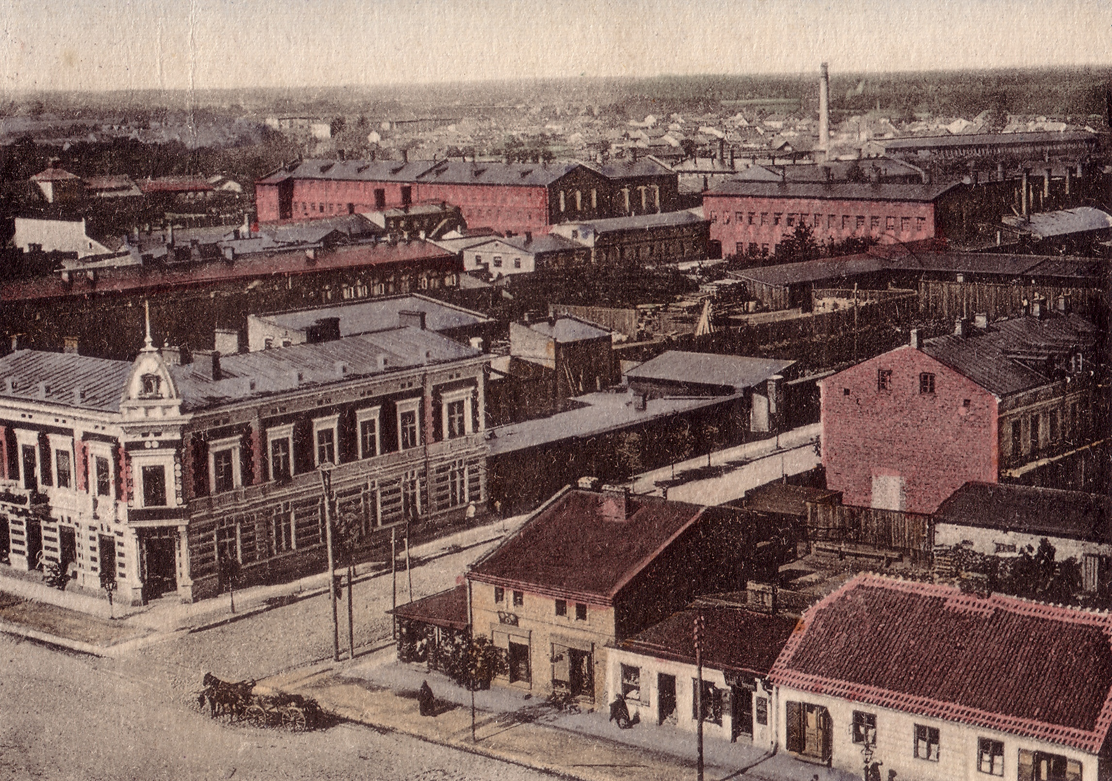 Wspólna Street in Włocławek (former name of Kilińskiego Street)